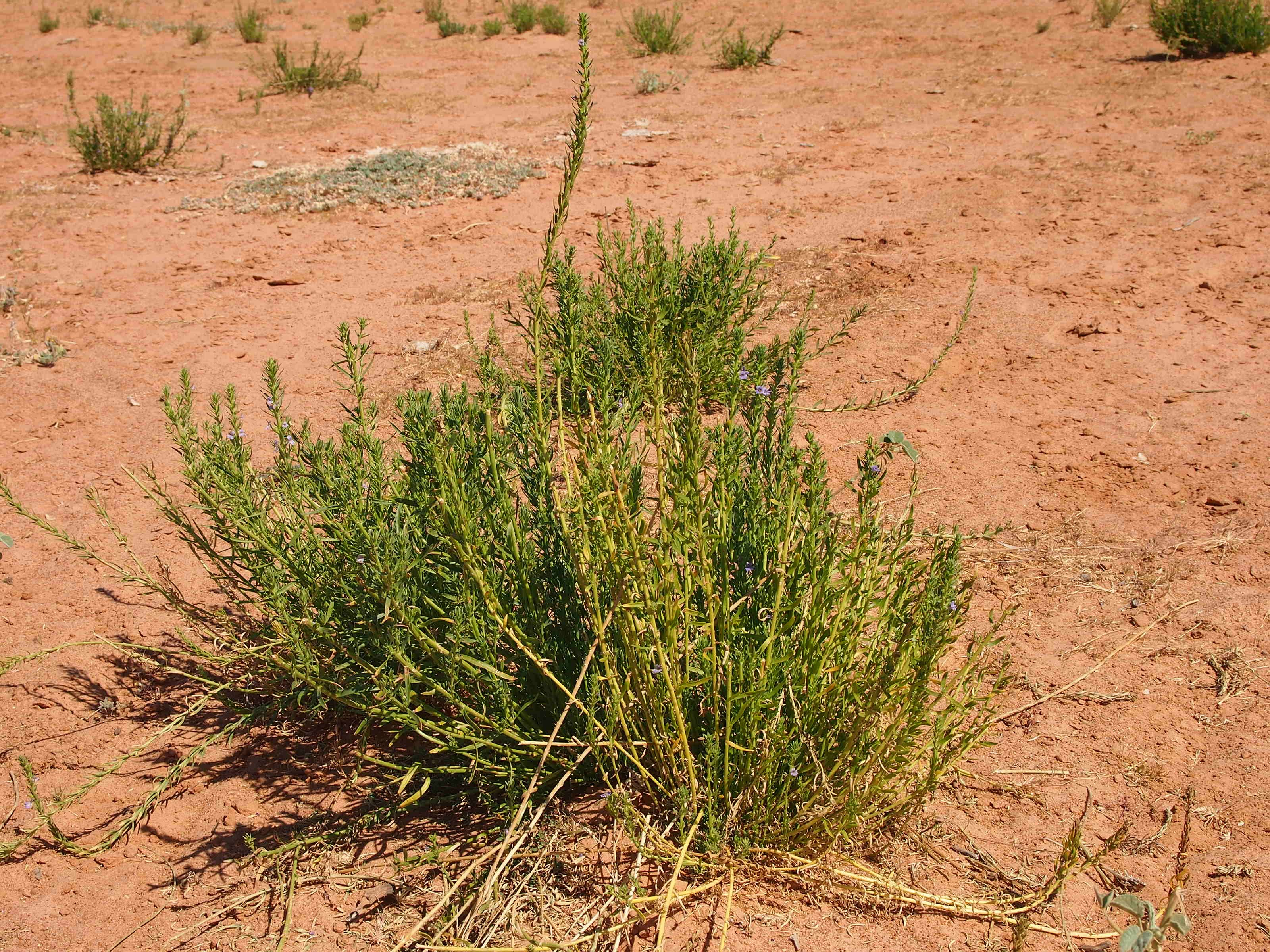 Stemodia florulenta habit